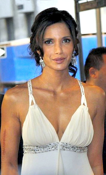 Indian model, actress, and cookbook author Padma Lakshmi